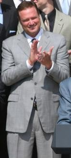 Bill Self, American collegiate basketball coach, here in 2008, whilst with the University of Kansas Jayhawks